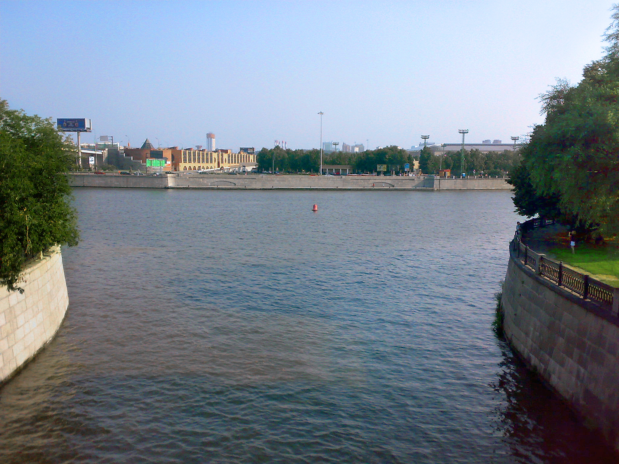 took this image using my mobile phone, on 7 September, 2008. The Setun River flowing into the Moskva River, Moscow.